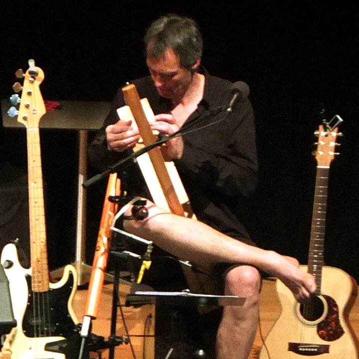 Wolfram Cramer von Clausbruch on stage with Harfe at the Klosterkirche Lennep (image detail)